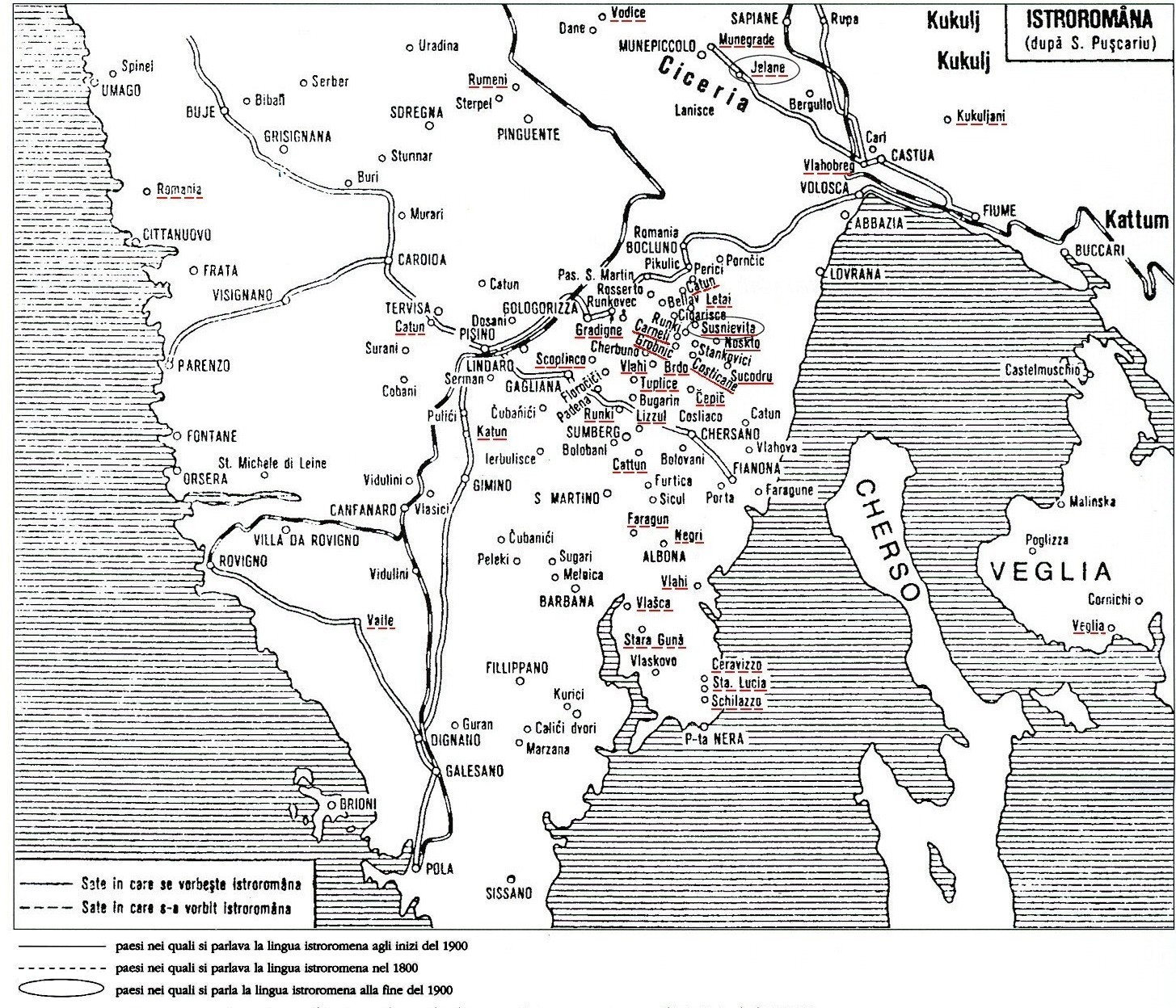 Inside the two circles there are the two major istrorumenian villages in the year 2000 Istria: Valdarsa (Susnevita) and Seiane (Zejane).